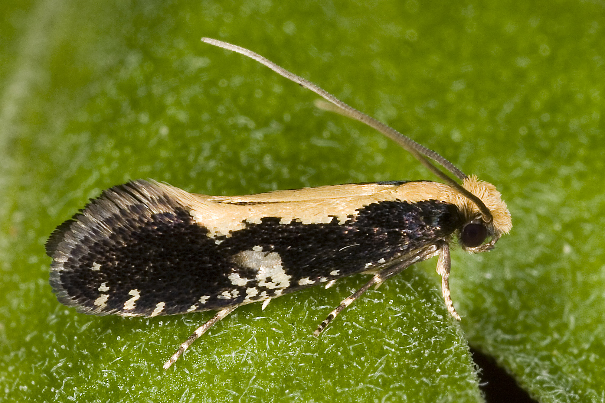 Monopis obviella, Many thanks to Ruedi Bryner for determination! (